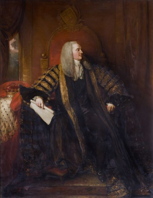 3rd Duke of Portland, Prime Minister in 1783 and from 1807 to 1809.